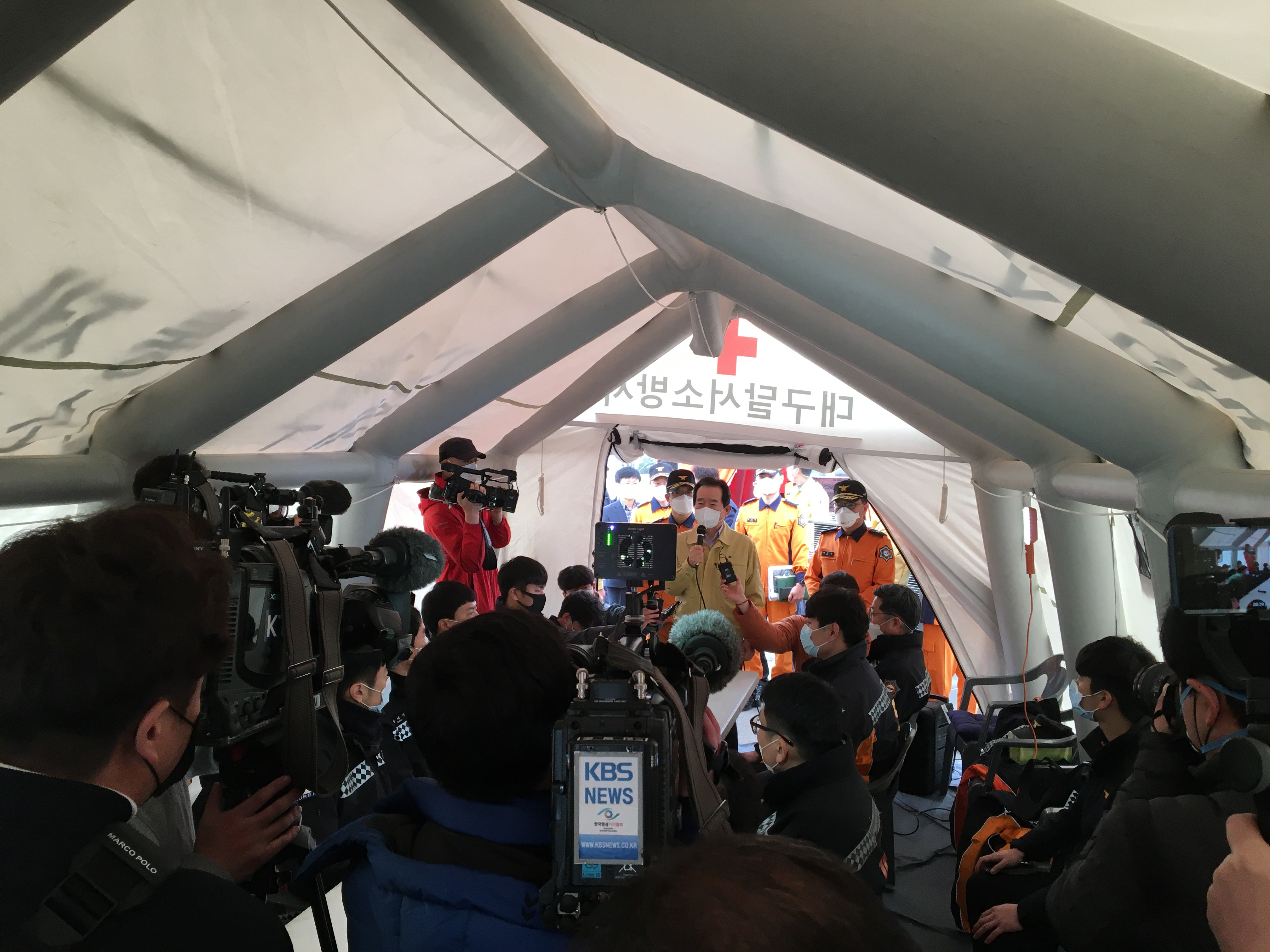 Chung Sye-kyun, COVID-19 pandemic in Daegu